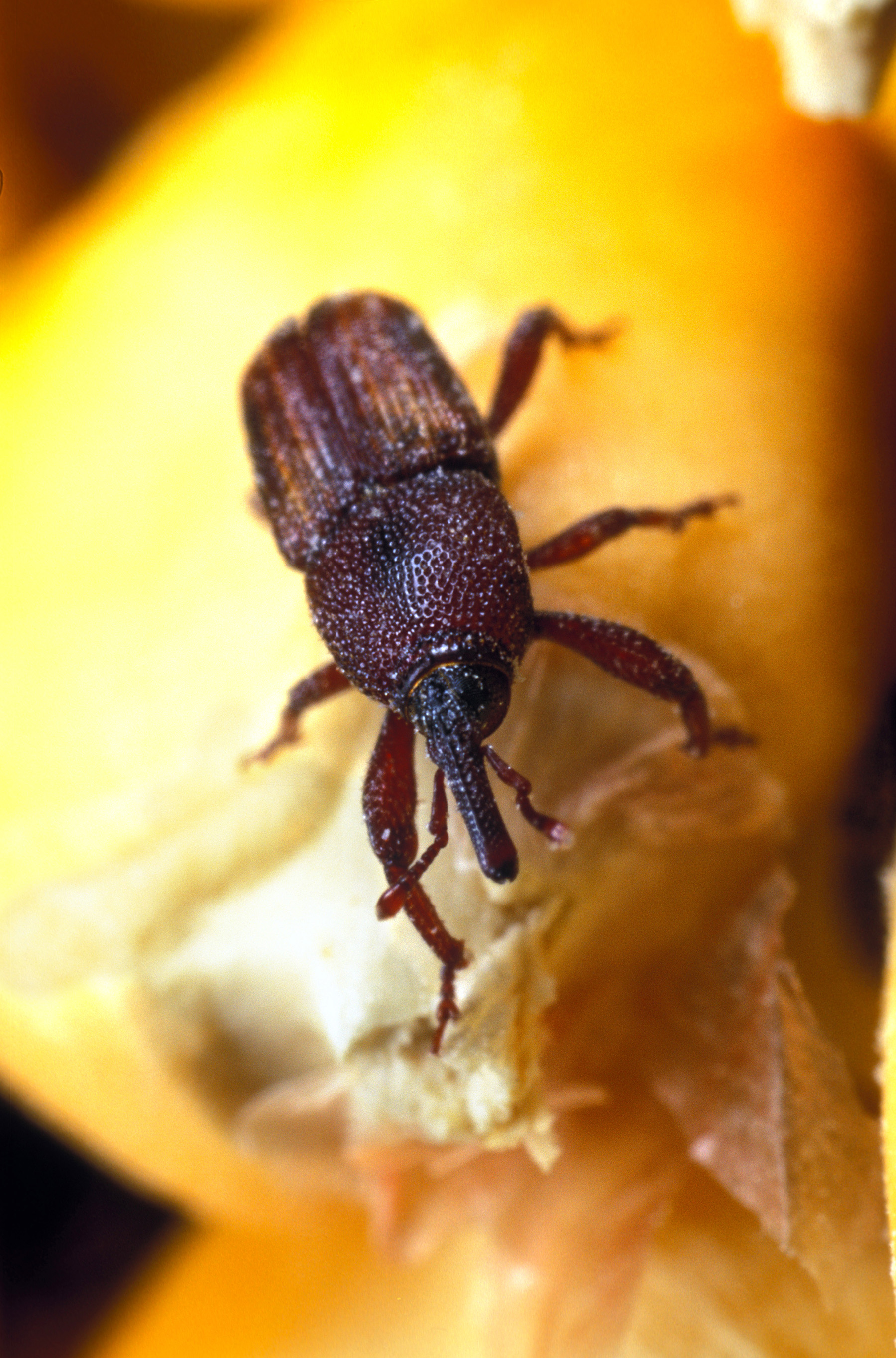 Maize weevil from Image Number K3980-17 Maize weevil.